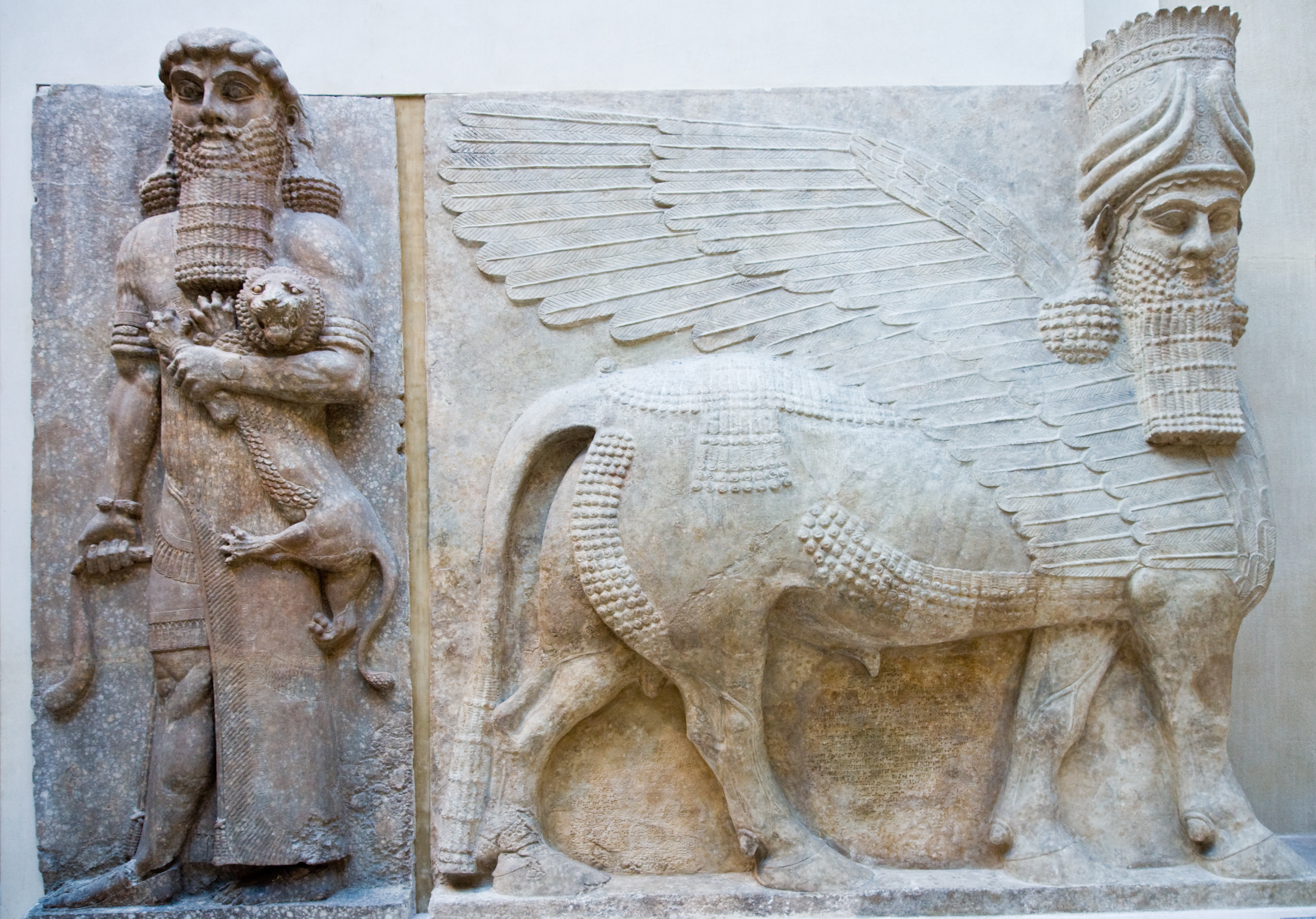 Taureau ailé de Khorsabad Hero mastering a lion-AO19862 Reproduction of a winged bull with human head-AO 30043